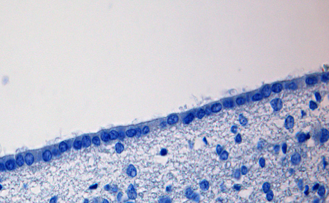 Photomicrograph of hematoxylin stained section of normal ependymal cells at 400x magnification. Human autopsy tissue. Image taken using an Olympus Microscope and Analysis-Imaging Software on 11-30-2006 by Martin Hasselblatt MD